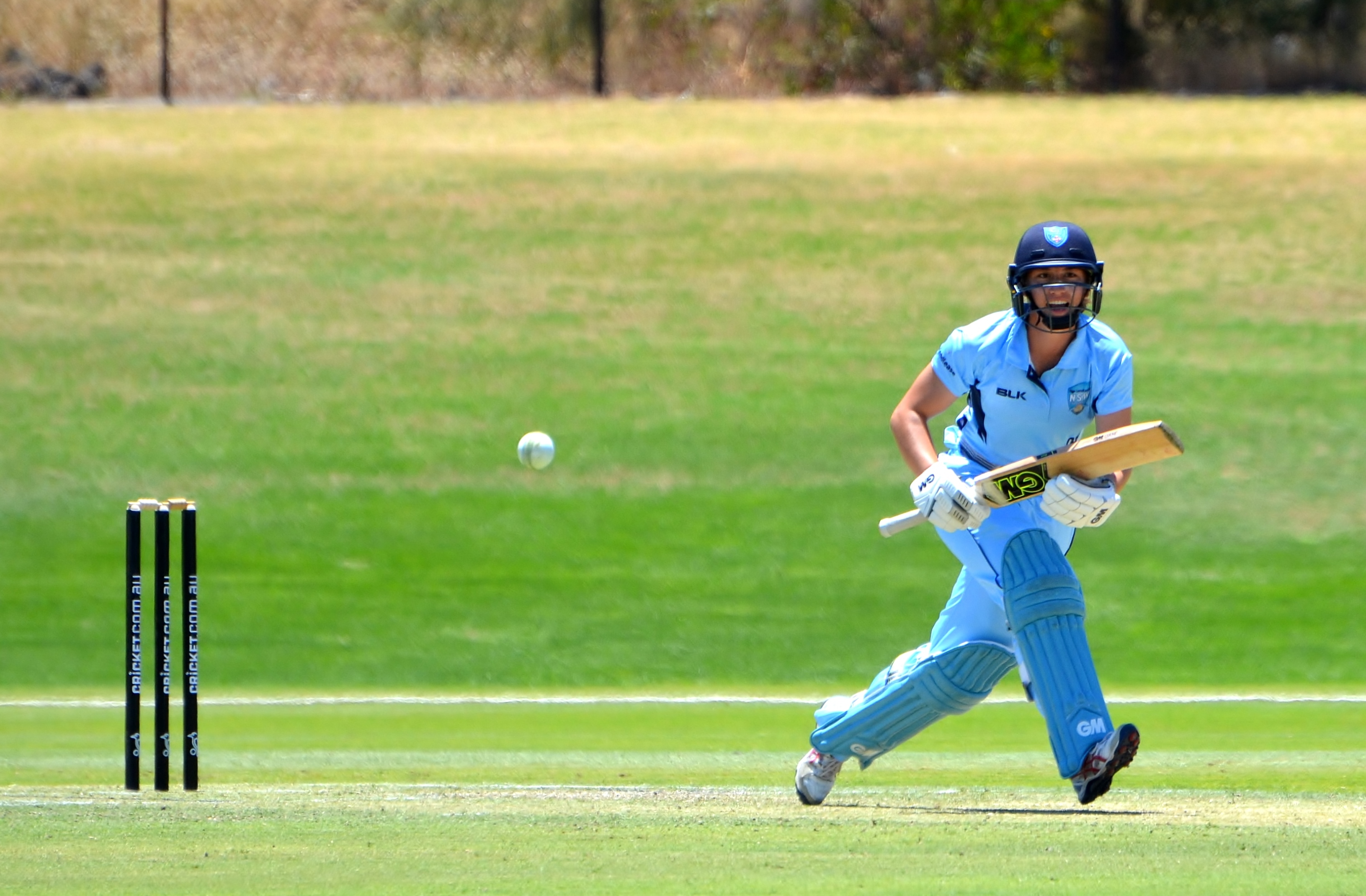 New South Wales Breakers batter Mikayla Hinkley on her way to a total of 24 runs against the ACT Meteors, in a WNCL top of the table clash at Murdoch University Sports Oval in Perth.